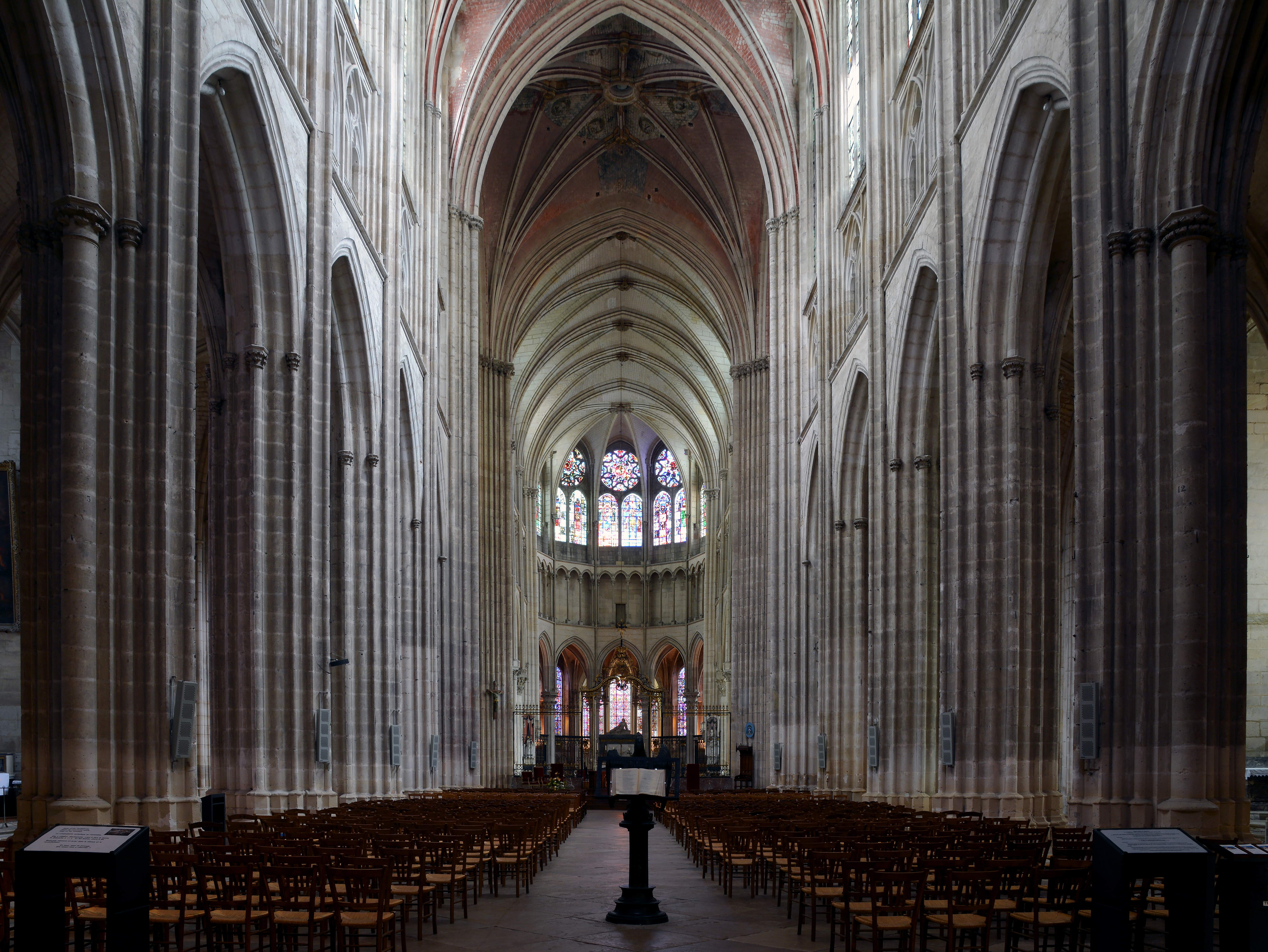 Cathédrale Saint-Étienne d'Auxerre - Interior